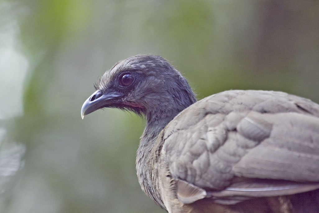 A Plain Chachalaca in the gounds of Belize Zoo, but not enclosed there.